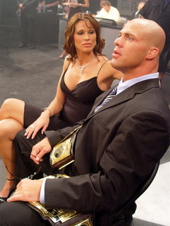 Kurt and Karen Angle at TNA Impact taping in Orlando Florida. Photo by Rob Beukema